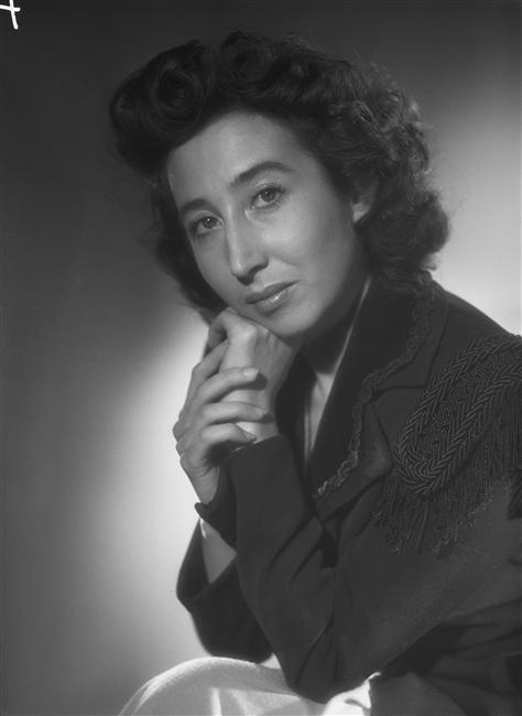 Studio photo